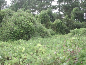 Kudzu Hemingway, South Carolina Image copyleft: Image taken by me, released under GFDL Pollinator 03:38, Nov 9, 2004 (UTC)